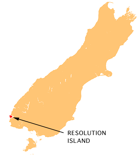 Location map of Resolution Island, New Zealand